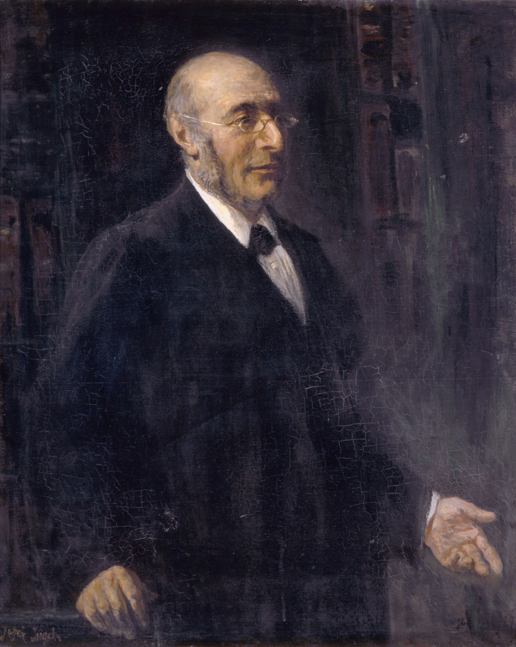 Barend Joseph Stokvis (1834-1902)